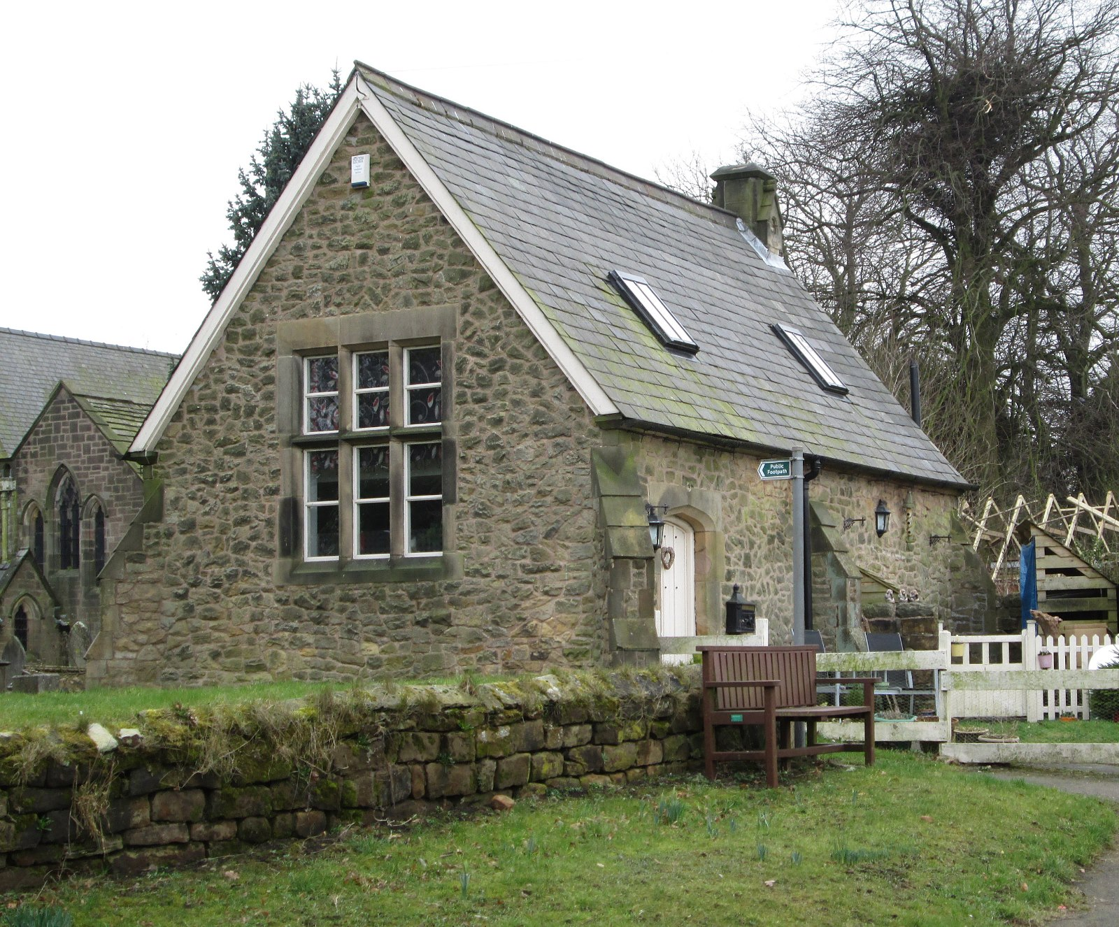 Morton - former schoolroom